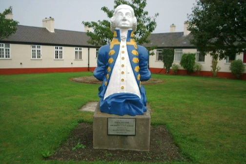 Photograph of figure head